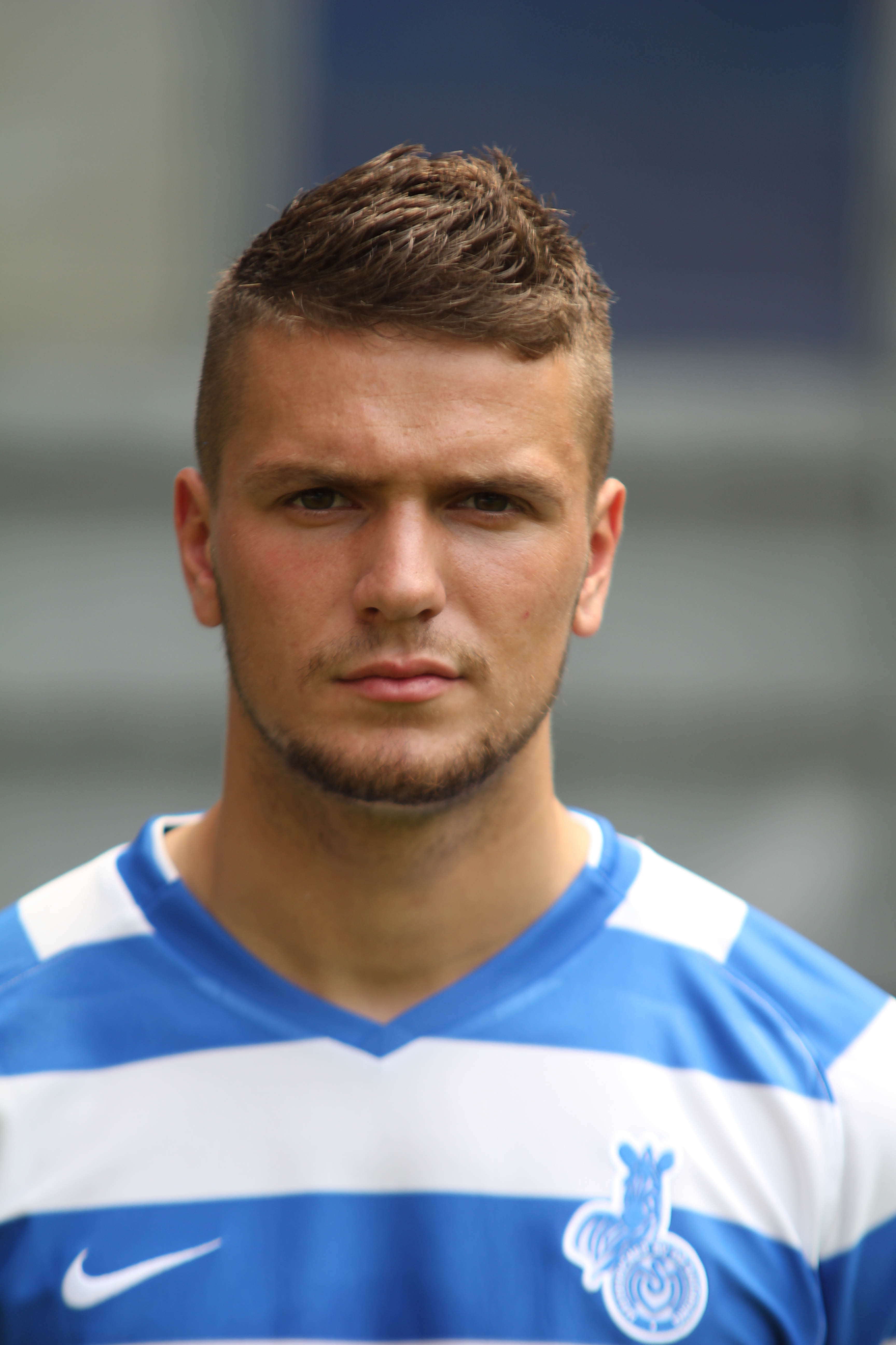 Norwegian footballer Flamur Kastrati, MSV Duisburg